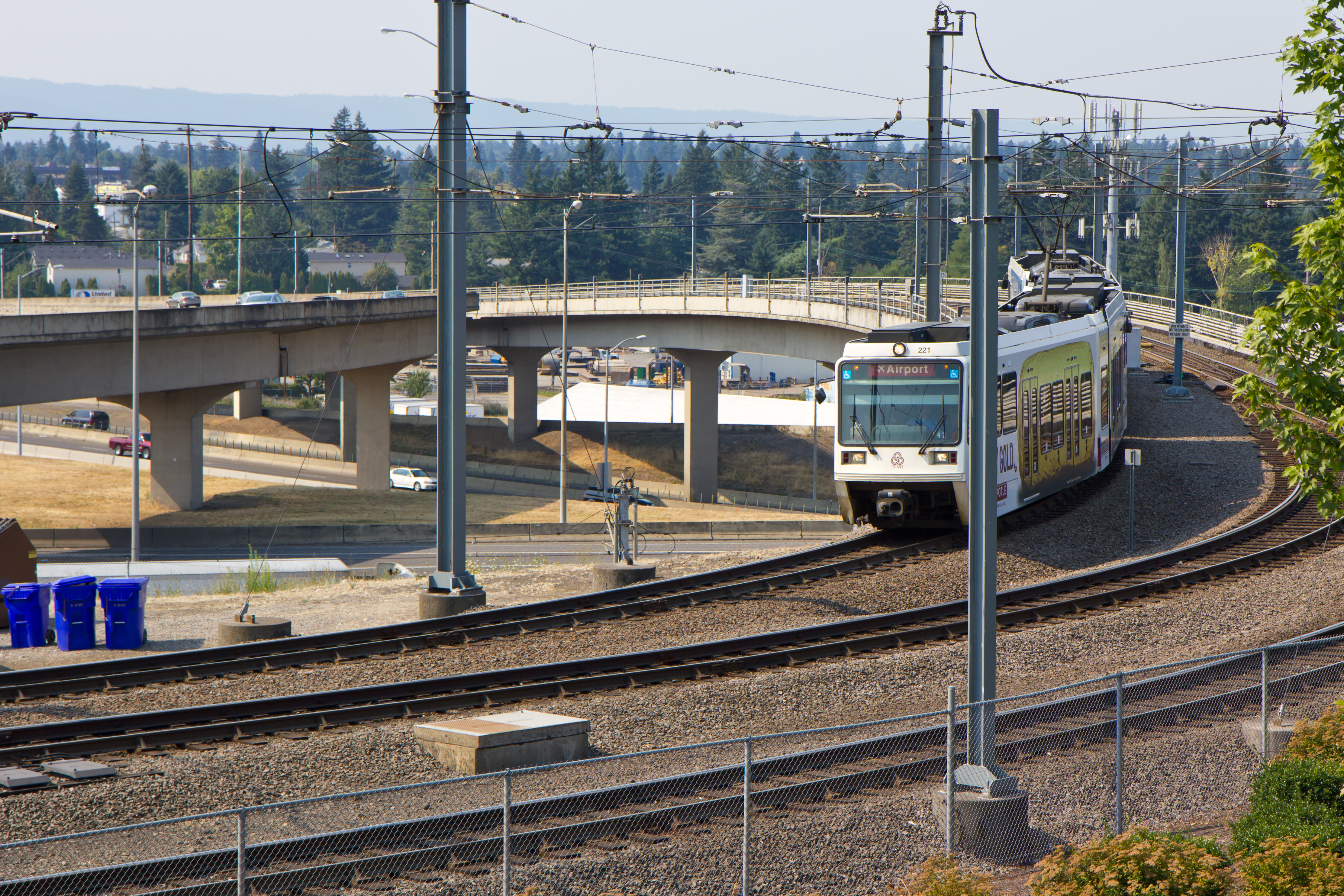 An airport-bound MAX Red Line train crossing the viaduct that carries the Blue, Green and Red MAX light rail lines cover both Interstate 84 and Interstate 205. This train is about to enter the Gateway Transit Center station, after which it will use a different (sharply curving) viaduct to cross over some lanes of the I-84/I-205 interchange and descend to a right-of-way alongside I-205.